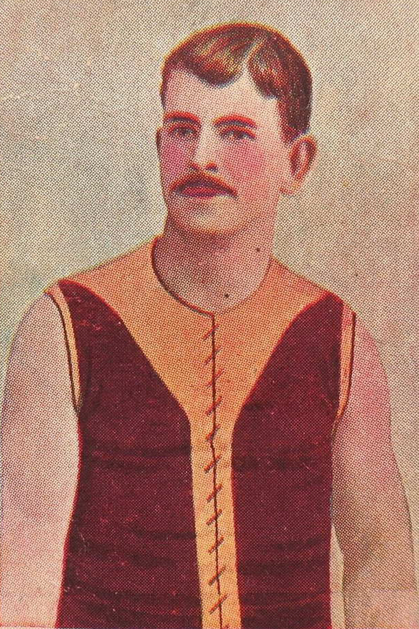 Cigarette card of Jim Grace from the 1905 Wills Past and Present Champions series.